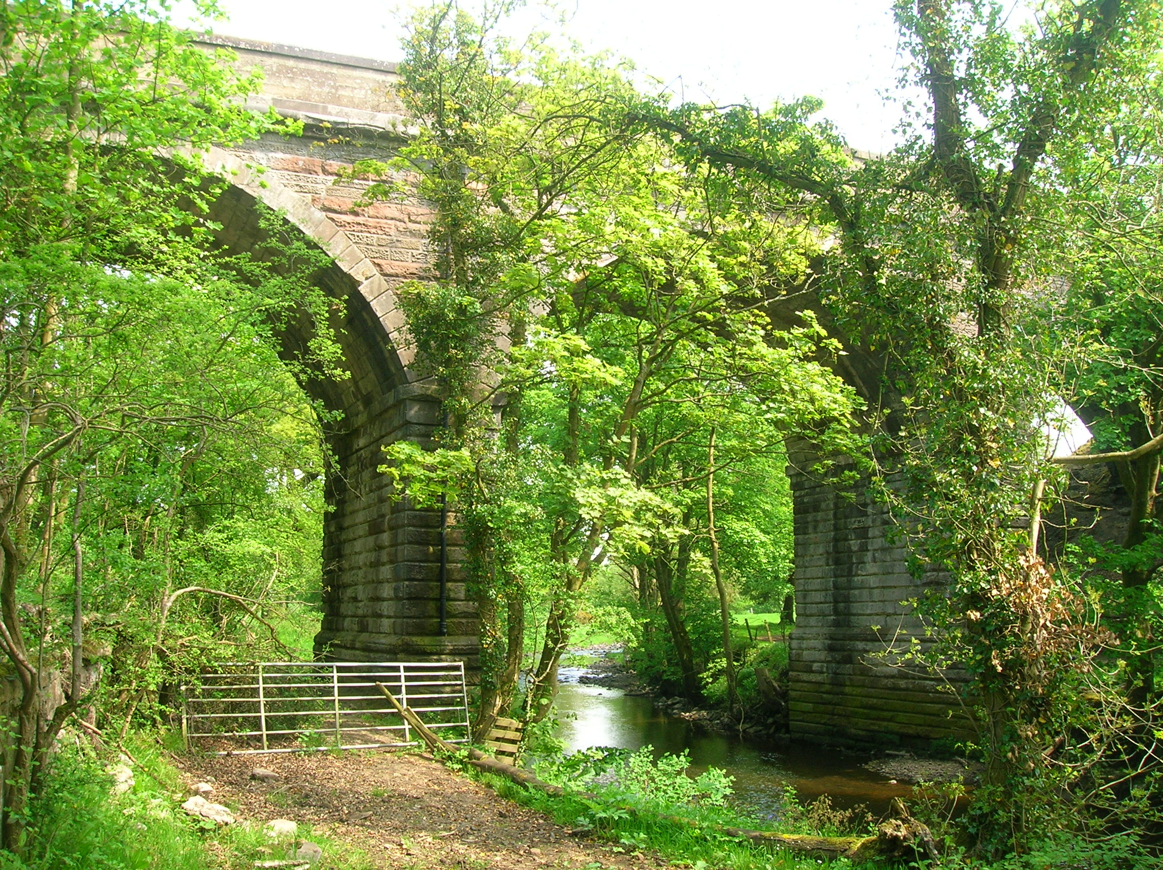 The Annick Viaduct, near Annick Lodge, Irvine, Ayrshire, Scotland.